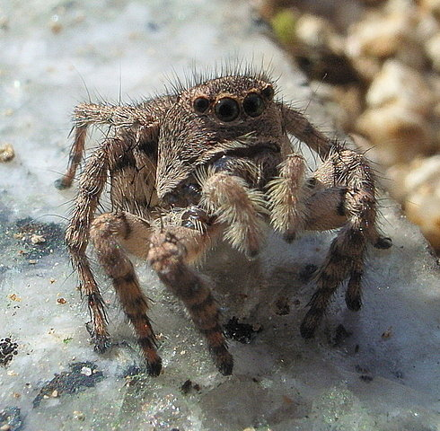 Asianellus festivus from Japan.